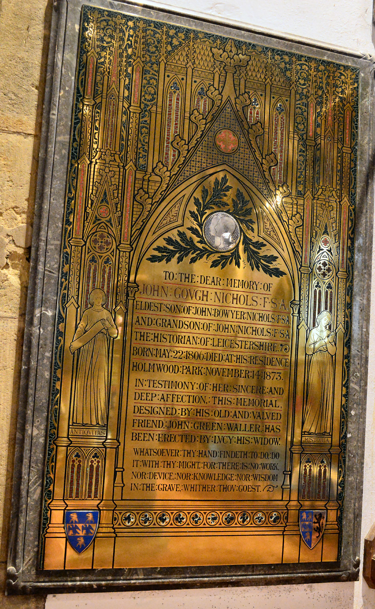 South Holmwood, St Mary Magdalene, brass to John Gough Nichols FSA, the antiquarian publisher of The Gentlemans Magazine